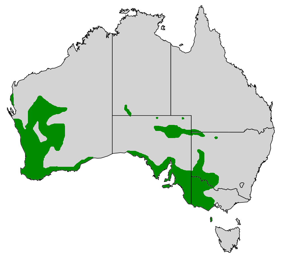 Range of banded stilt (note that it is highly nomadic) in green. Data taken from Marchant, Stephen , ed. (1993) Handbook of Australian, New Zealand and Antarctic Birds. Vol. 2: Raptors to Lapwings, Melbourne, Victoria: Oxford University Press, p. 782 ISBN: 0-19-553069-1. Base map of Australia was File:Australia map, States.svg